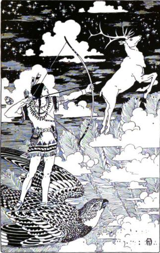 Sosondowah, the great hunter in Iroquois mythology, hunting the Sky Elk.